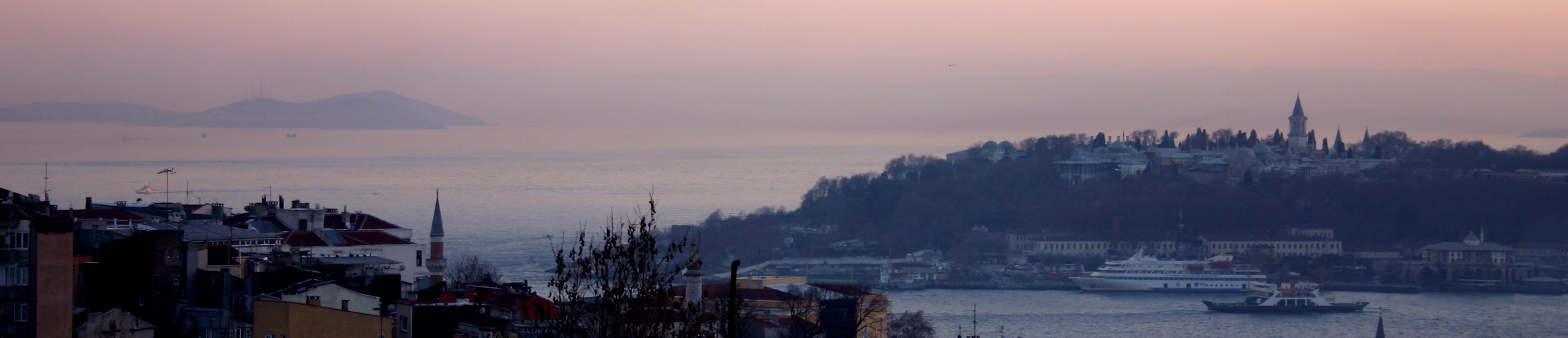 View of the Golden Horn, Sarayburnu, Topkapi, the Princess Islands and the Marmara Sea seen from Galatasaray, Beyoglu. Photo by Bertil Videt 2006.